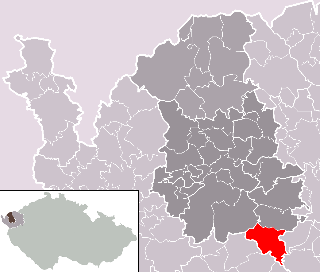 Location of Nová Ves municipality within Sokolov District and administrative area of Sokolov as a Municipality with Extended Competence.